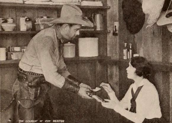 Still from the American western film The Learnin' of Jim Benton (1917) with Roy Stewart and Fritzi Ridgeway, on page 28 of the December 29, 1917 Exhibitors Herald.